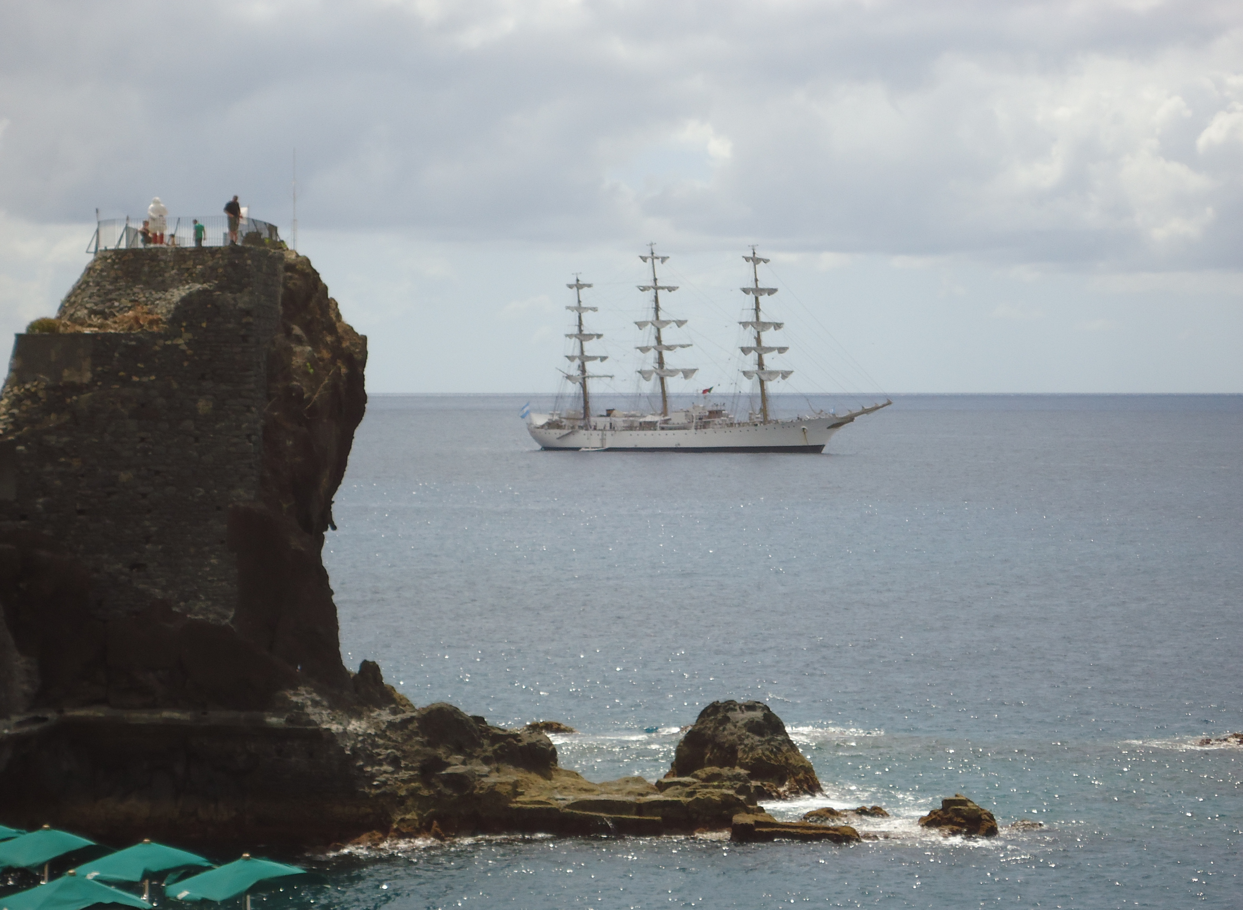 ARA Libertad anchored off the port of Funchal, Madeira